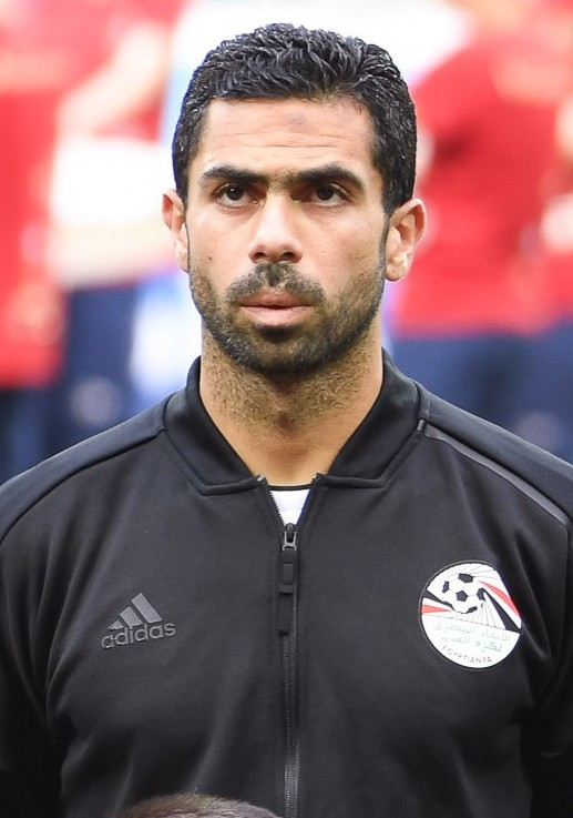 Mohamed Salah, Ahmed Fathy